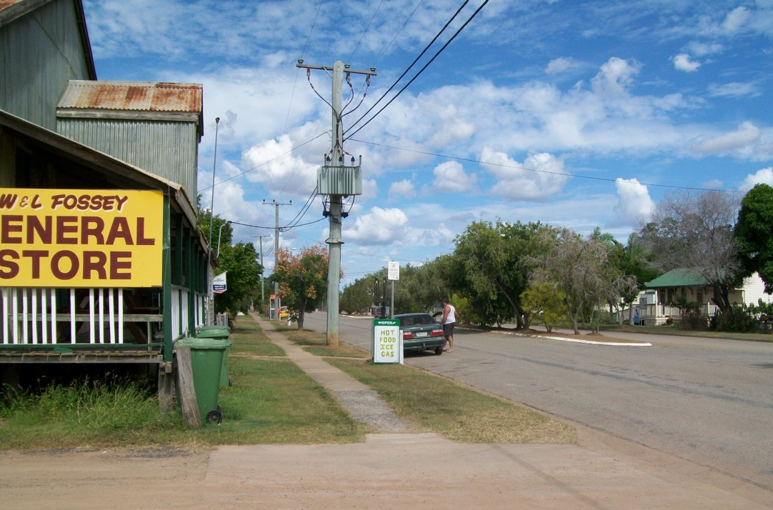 Photo taken May 09 by User:Bruceanthro, specifically to upload onto St Lawrence Wikipedia article